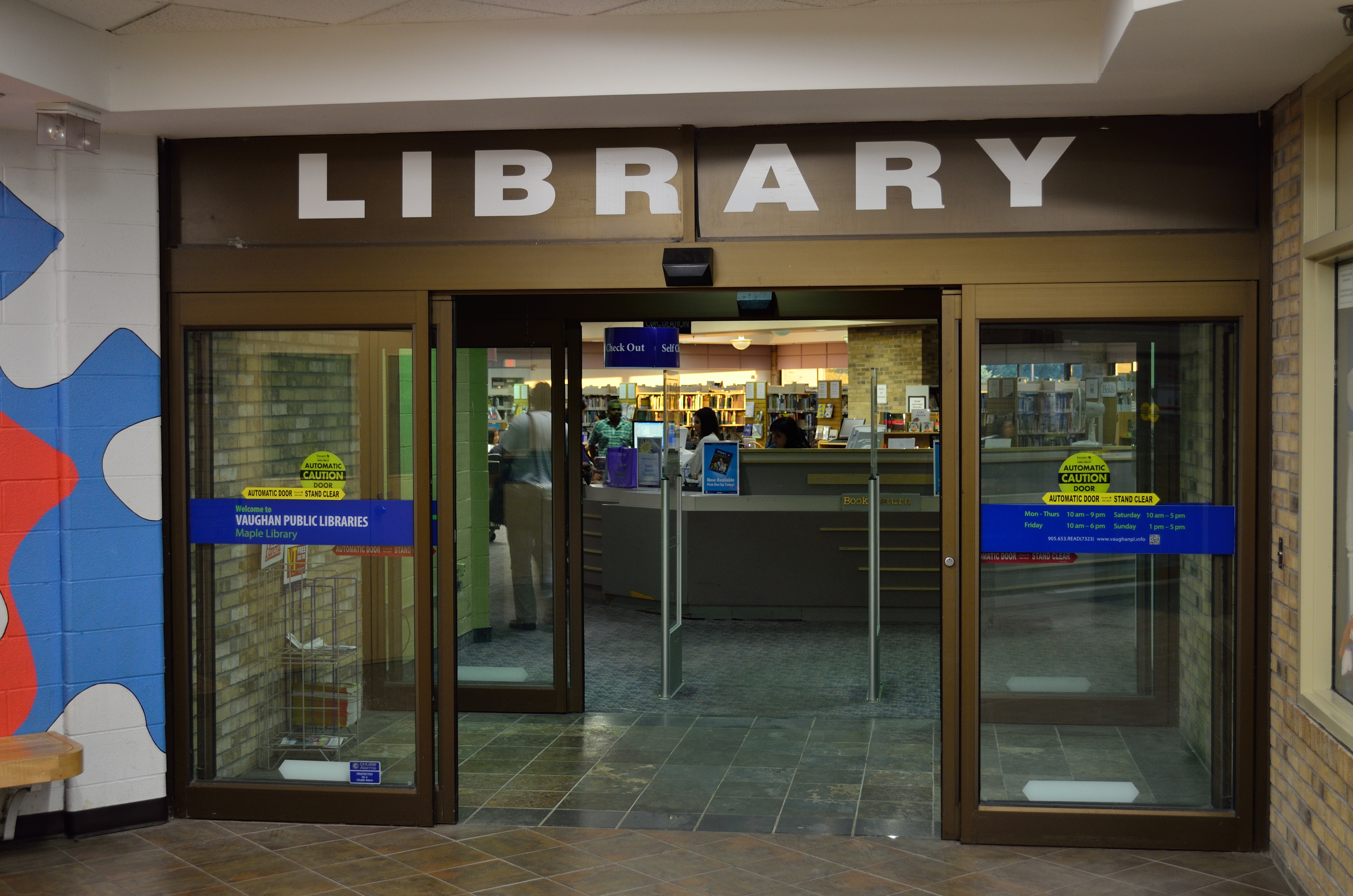 Maple Library - Vaughan Public Libraries System